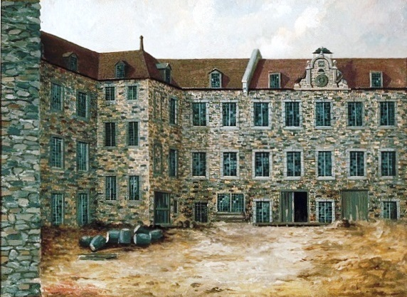 Painting, The Montreal College, College Street, Montreal, Henry Richard S. Bunnett, 1885-1889, Oil on canvas, 30.8 x 40.2 cm